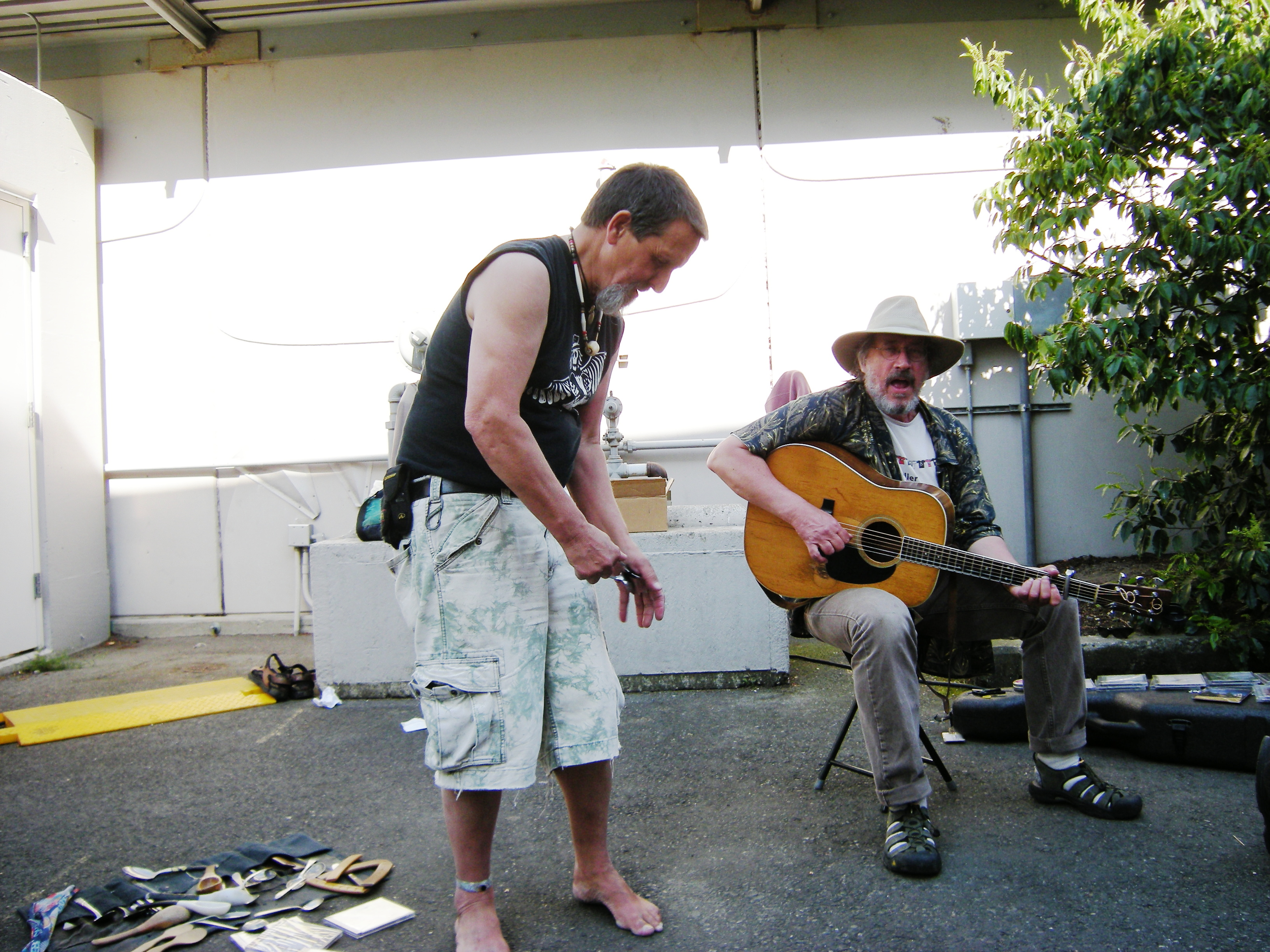 Artis the Spoonman and Jim Page performing at 2009 Northwest Folklife Festival, Seattle Center, Seattle, Washington.